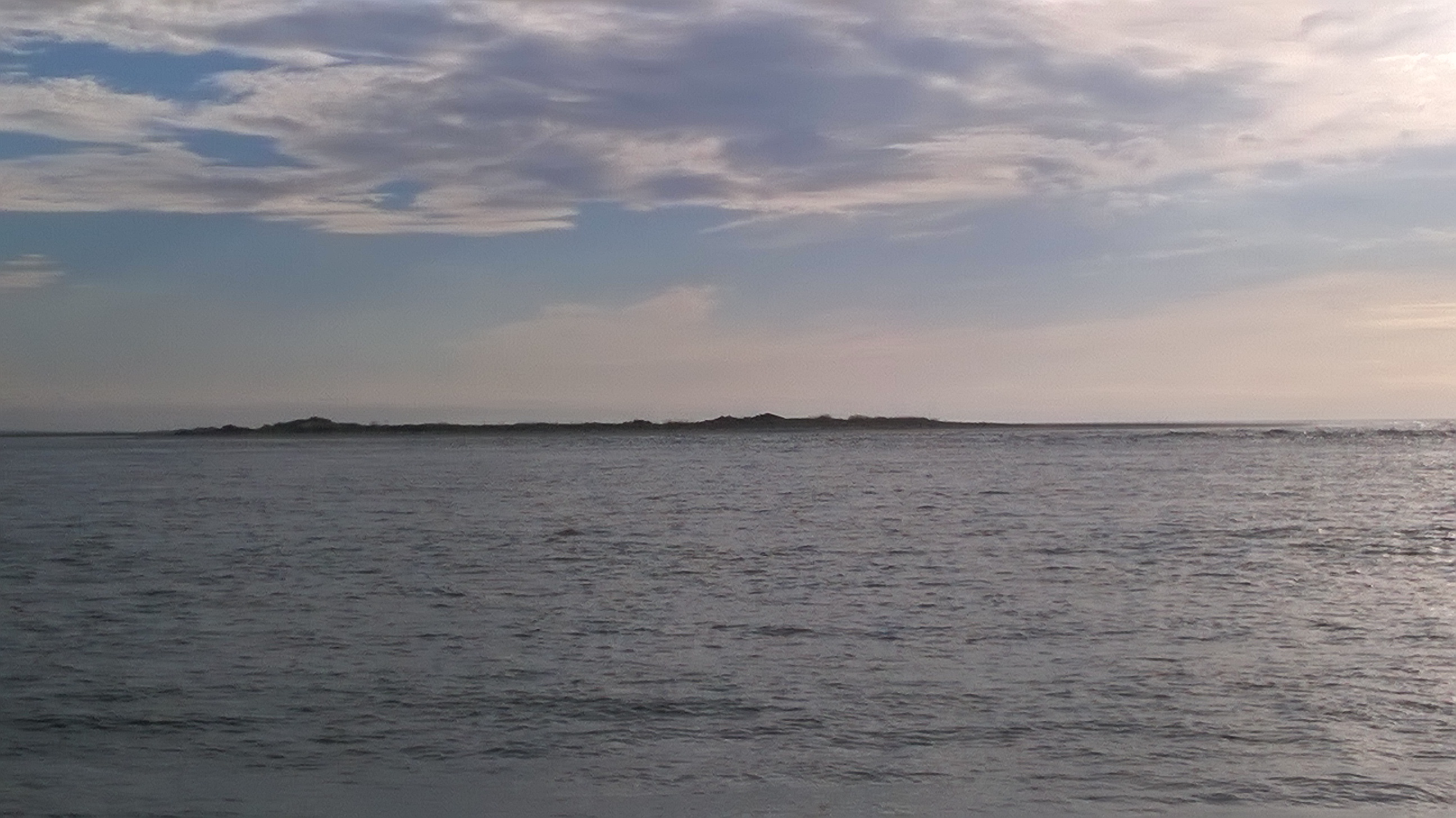 Lea-Hutaff Island, as seen from Figure Eight Island to the south